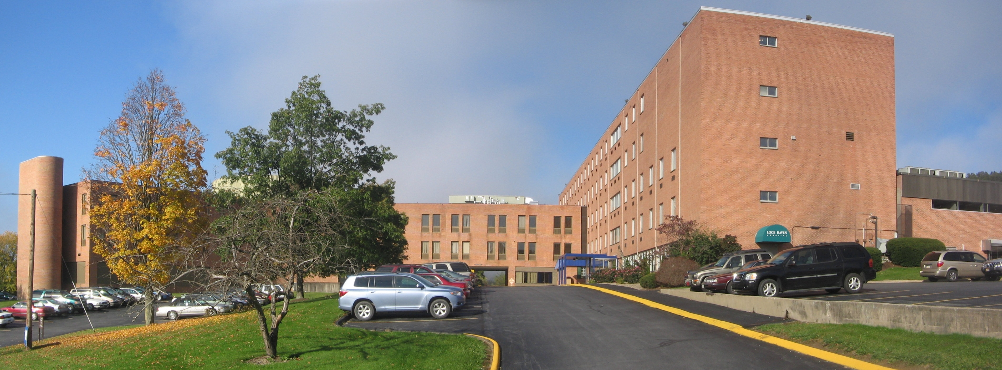 UPMC Susquehanna Lock Haven hospital in Lock Haven, Clinton County, Pennsylvania, USA